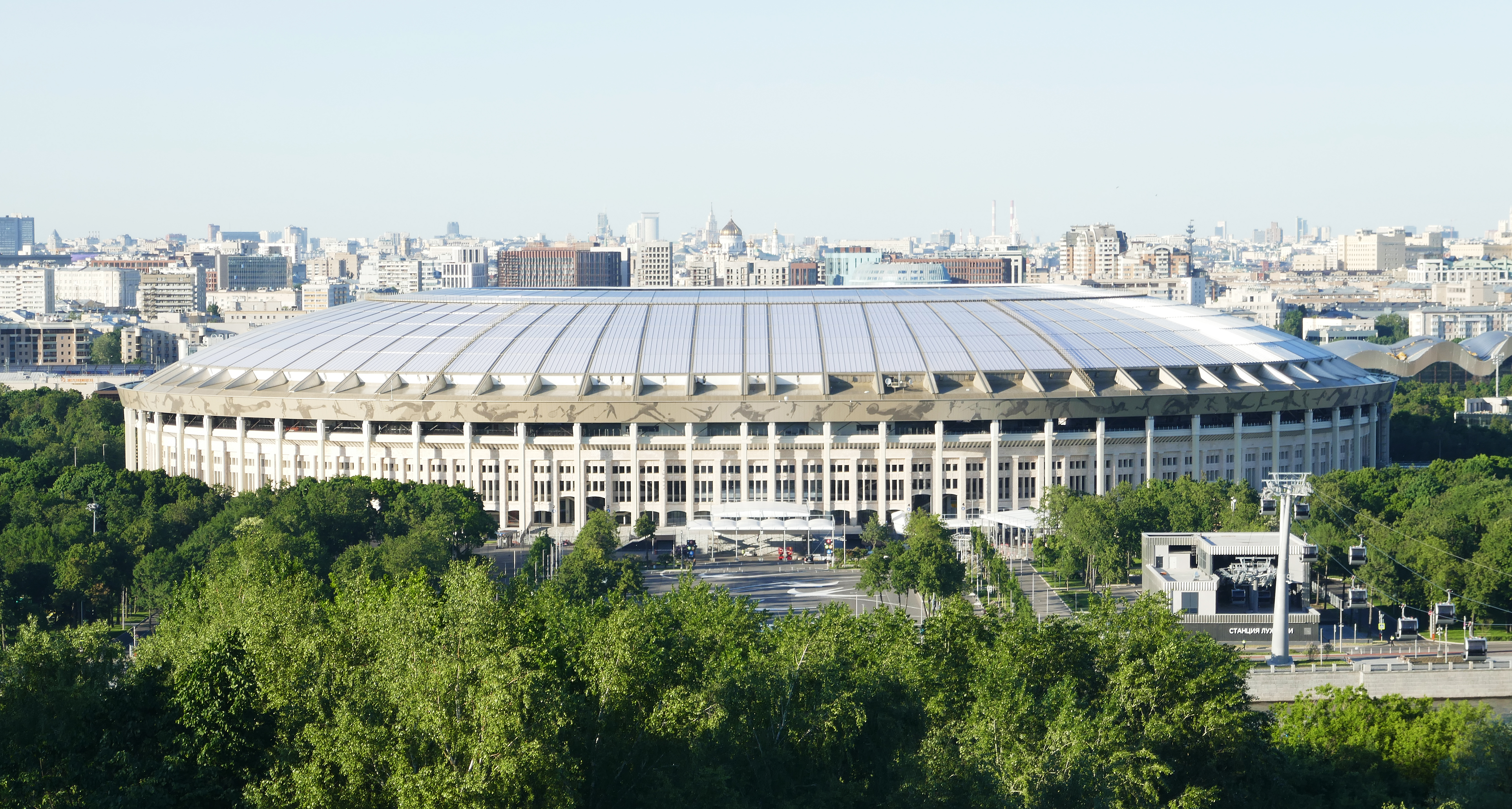 Moscow, exterior of Luzhniki Stadium.